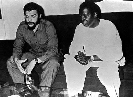 Ernesto Che Guevara and the first President of Ghana, Kwame Nkrumah, January 1965 Location: Ghana (Accra?)